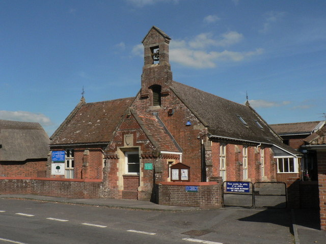 Okeford Fitzpaine: village school Okeford Fitzpaine Primary School clearly still occupies the premises originally built for it.